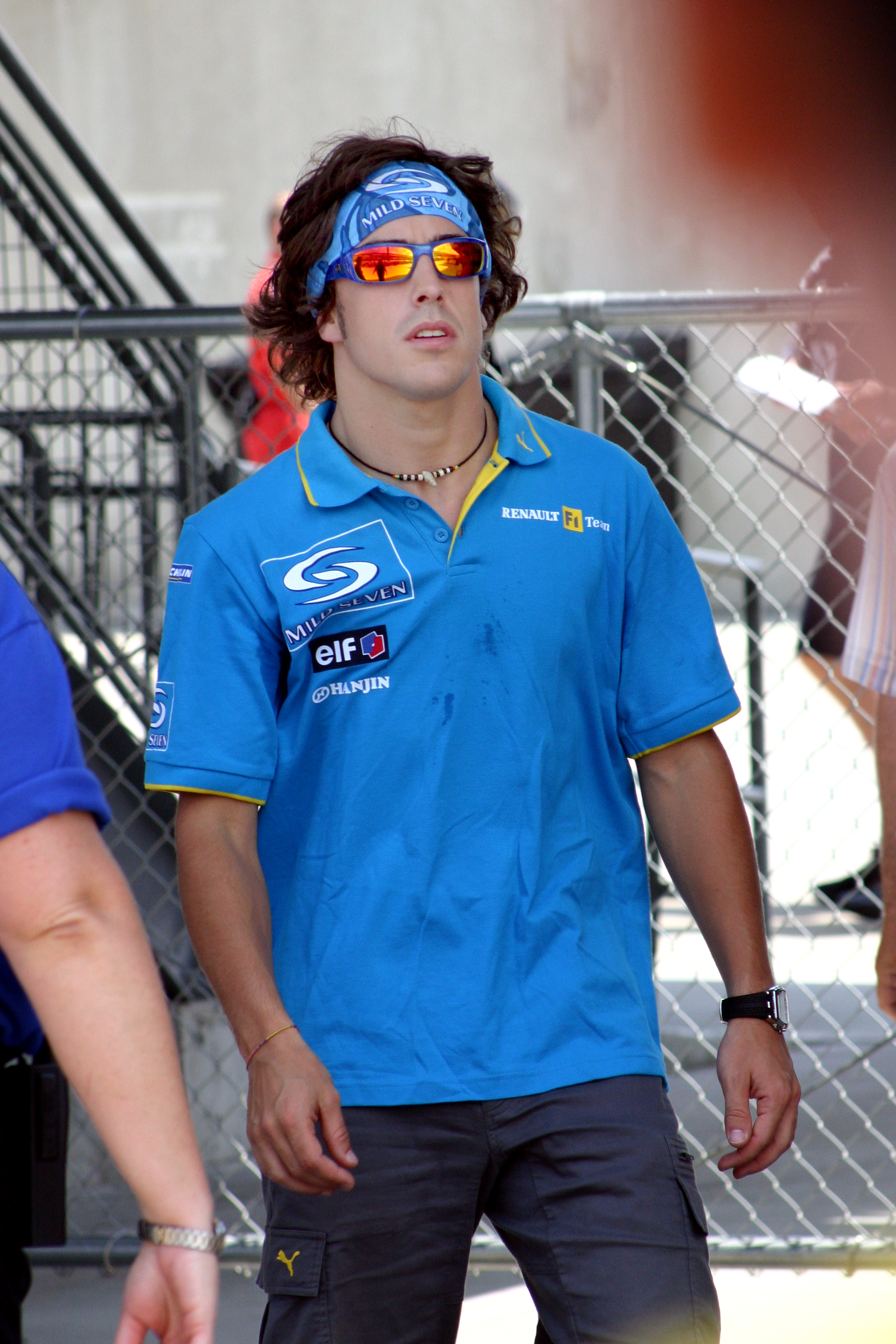 Formula One driver Fernando Alonso in the pit lane at the United States GP 2004, Indianapolis